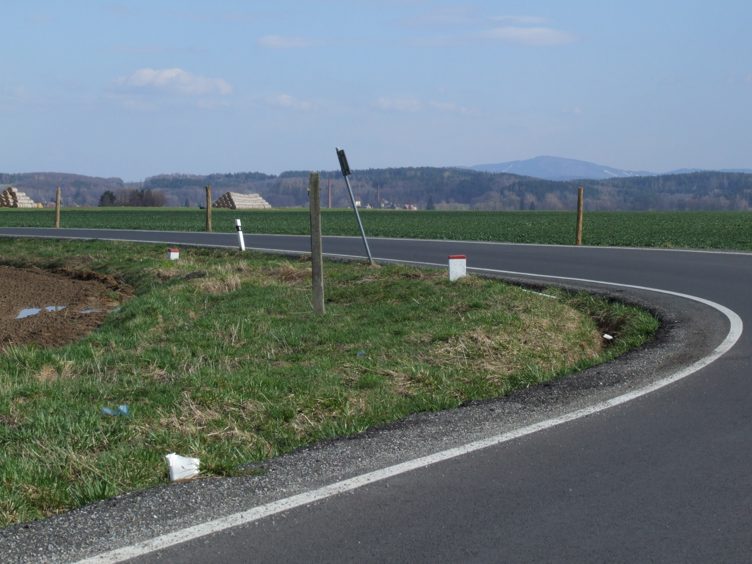 Border between Czech Republic (right) and Poland (left) near Vidnava